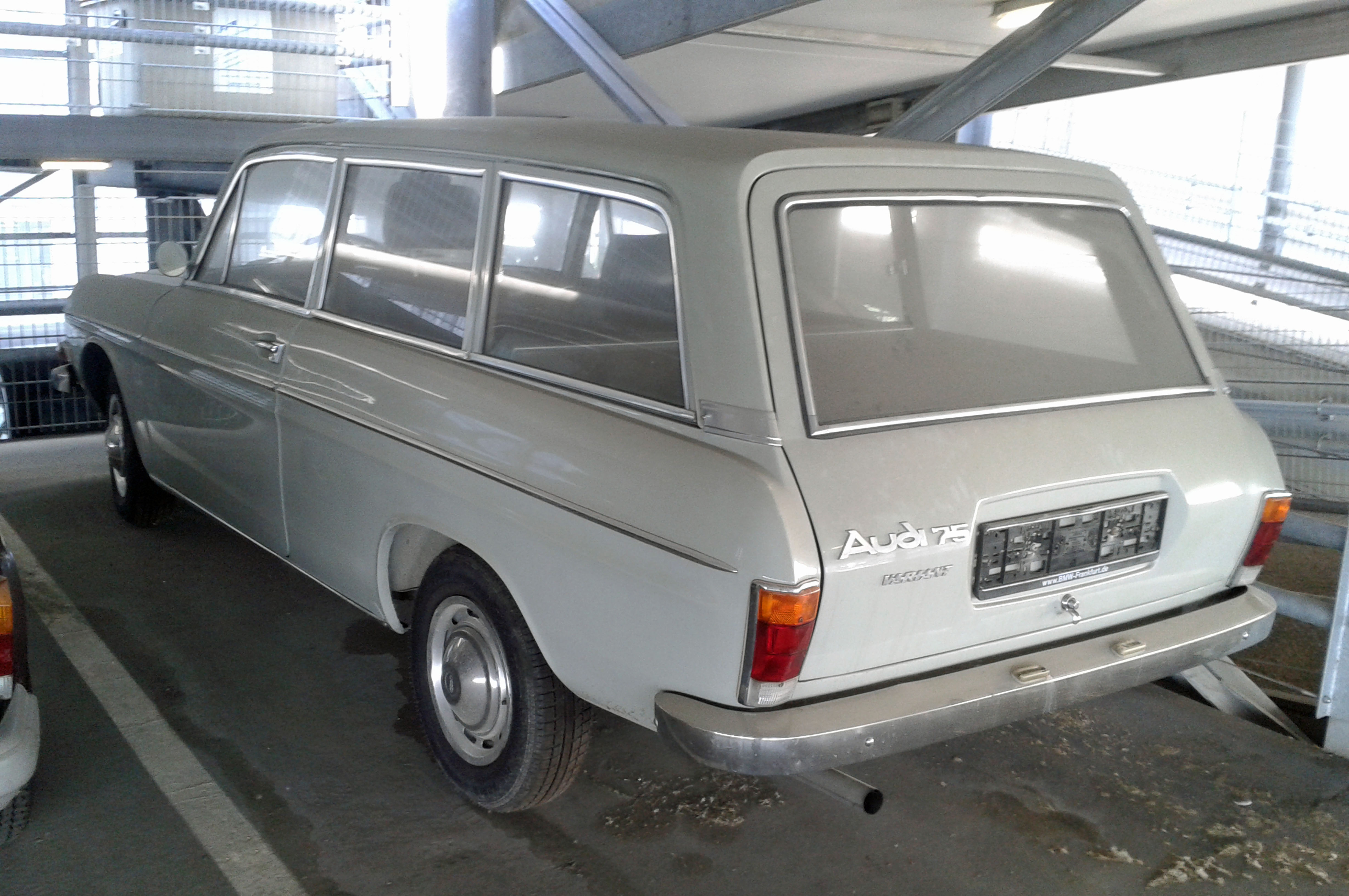 Audi 75 Variant